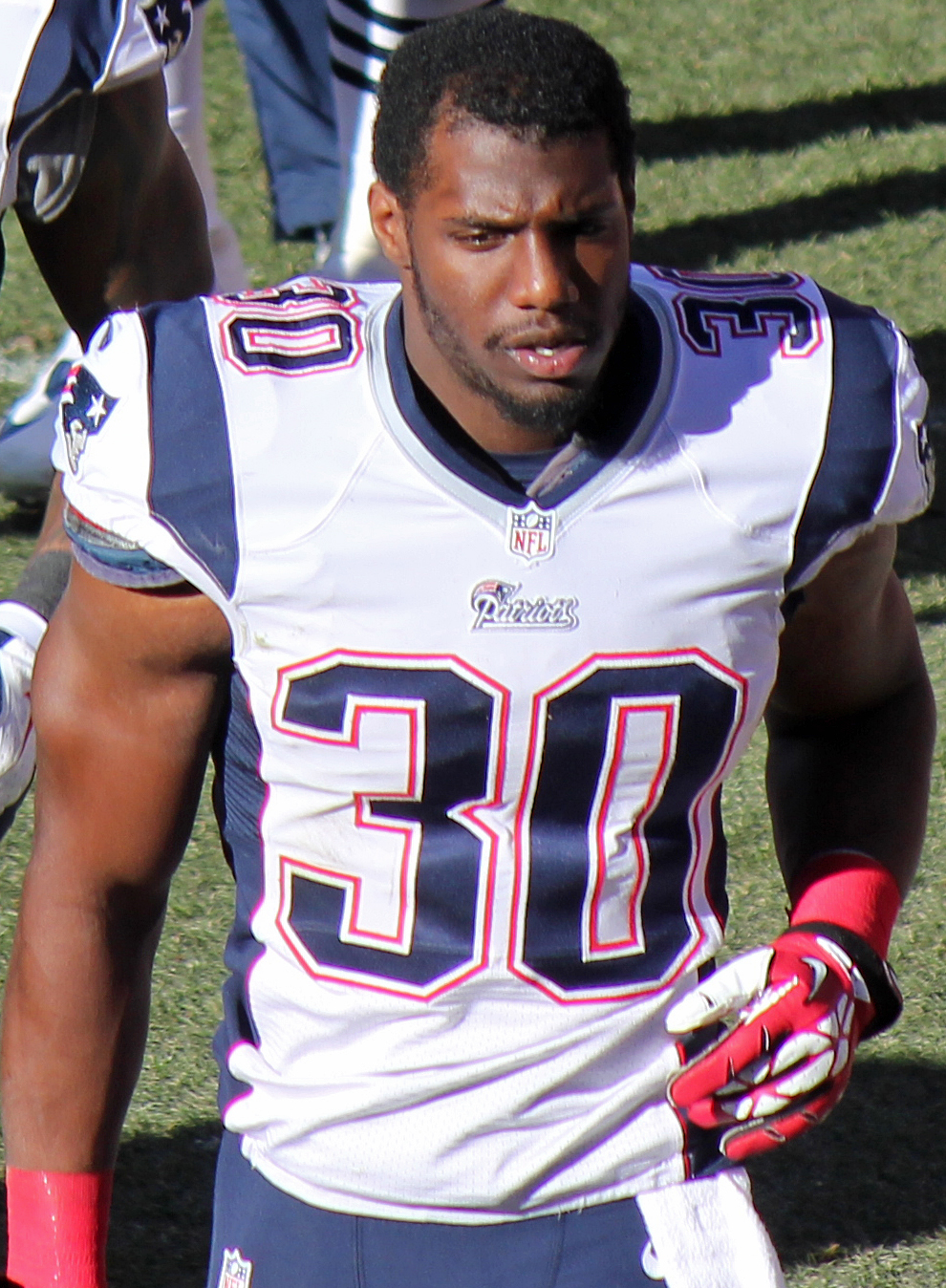 Duron Harmon, a player on the National Football League.